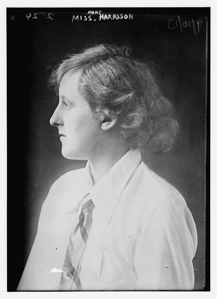 Bain News Service,, publisher. Miss Mary Harrison [between ca. 1910 and ca. 1915] 1 negative : glass ; 5 x 7 in. or smaller. Notes: Title from unverified data provided by the Bain News Service on the negatives or caption cards. Forms part of: George Grantham Bain Collection (Library of Congress). Format: Glass negatives. Repository: Library of Congress, Prints and Photographs Division, Washington, D.C. 20540 USA, General information about the Bain Collection is available at Persistent URL: Call Number: LC-B2- 2824-16